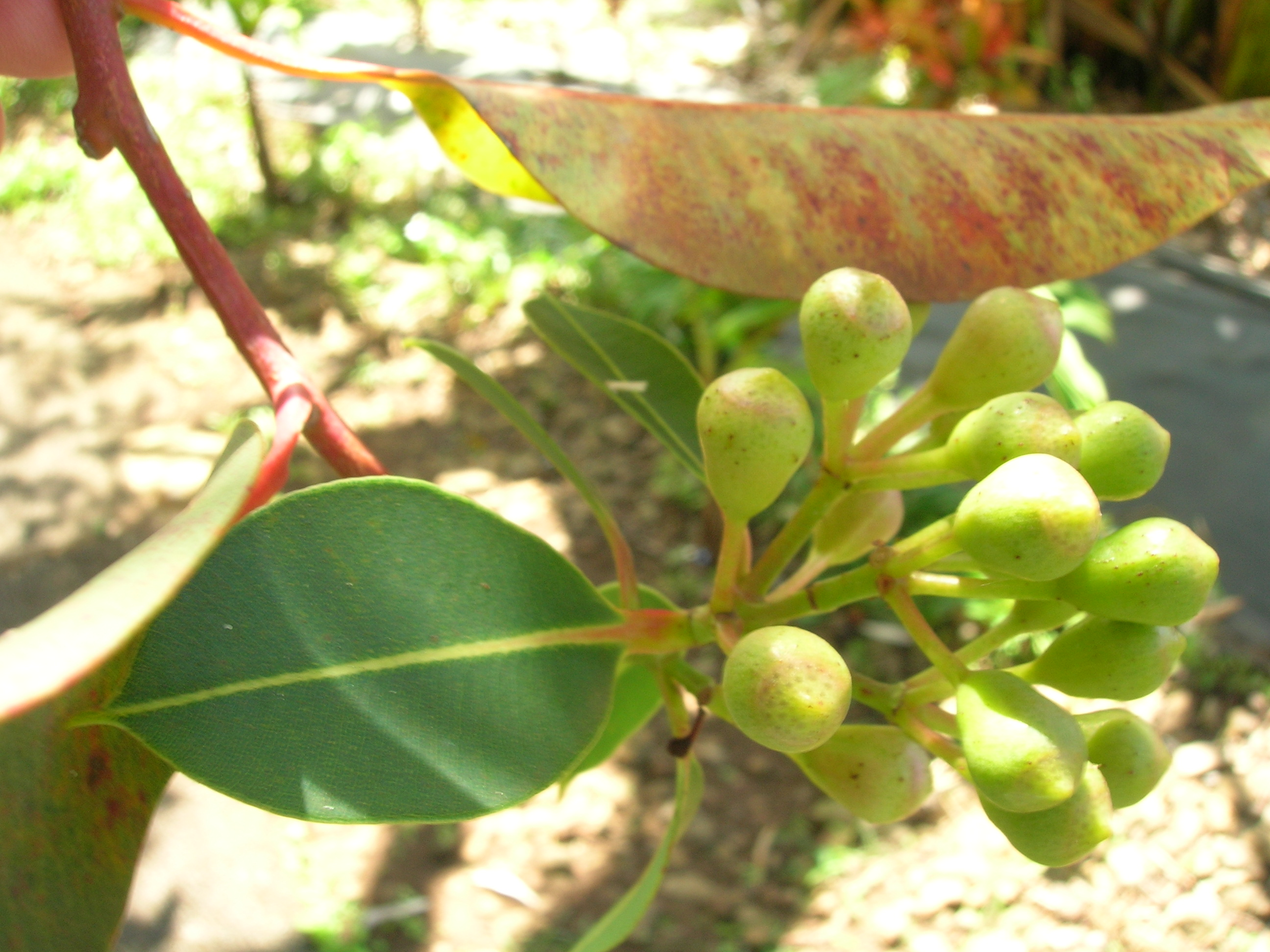 Corymbia ficifolia (leaves and buds). Location: Maui, Enchanting Floral Gardens of Kula